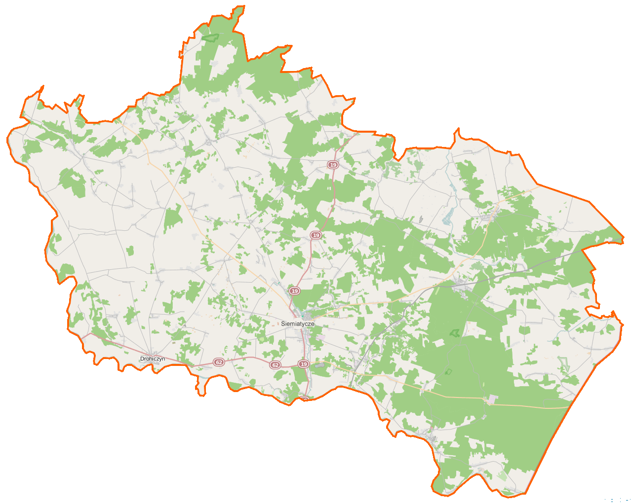 Map of Powiat siemiatycki, Poland This map of Powiat siemiatycki was created from OpenStreetMap project data, collected by the community. This map may be incomplete, and may contain errors. Don't rely solely on it for navigation.